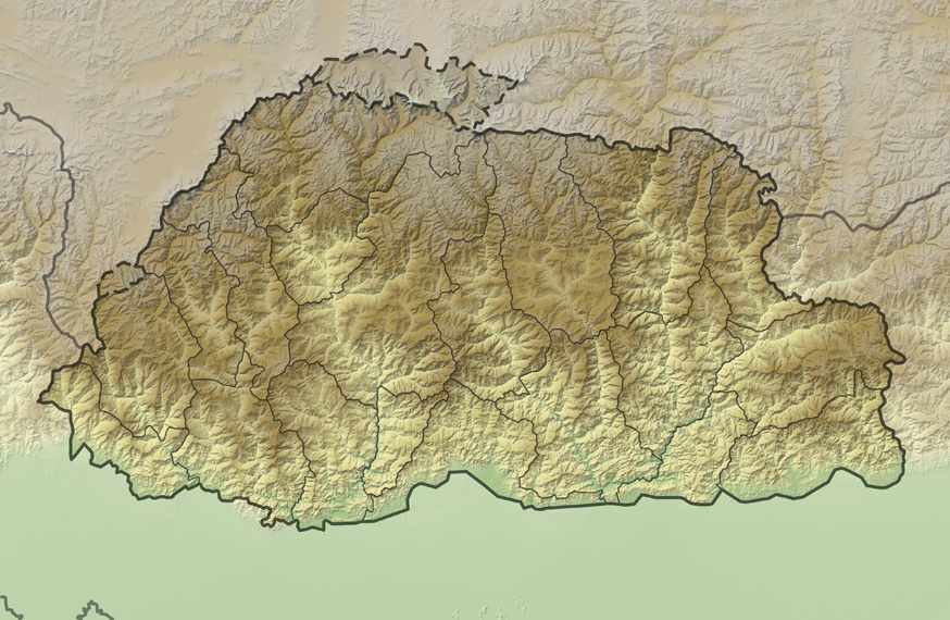 Location map of Bhutan Equirectangular projection, N/S stretching 115 %. Geographic limits of the map: N: 28.5° N S: 26.4° N W: 88.6° E E: 92.3° E